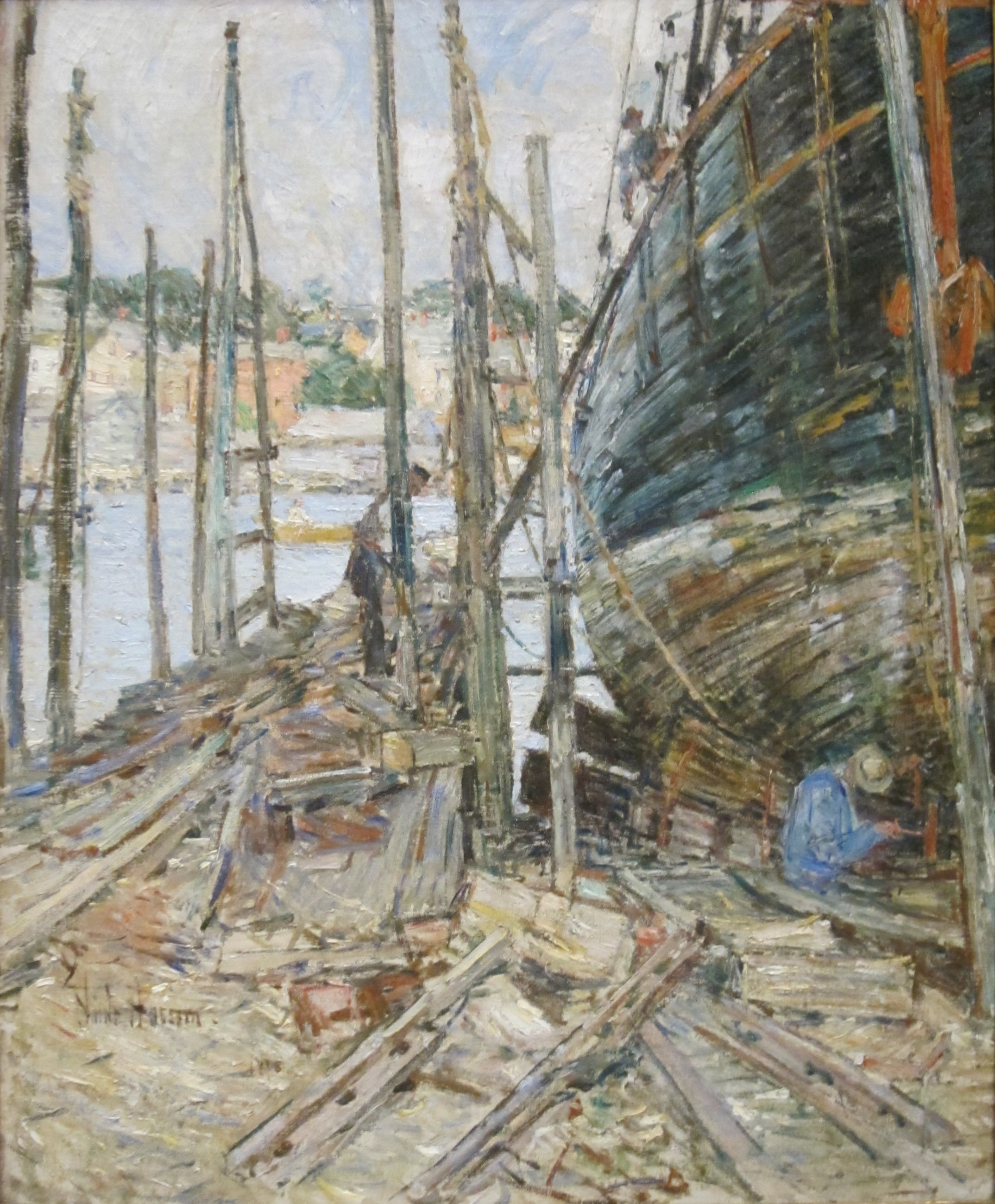 The Caulker